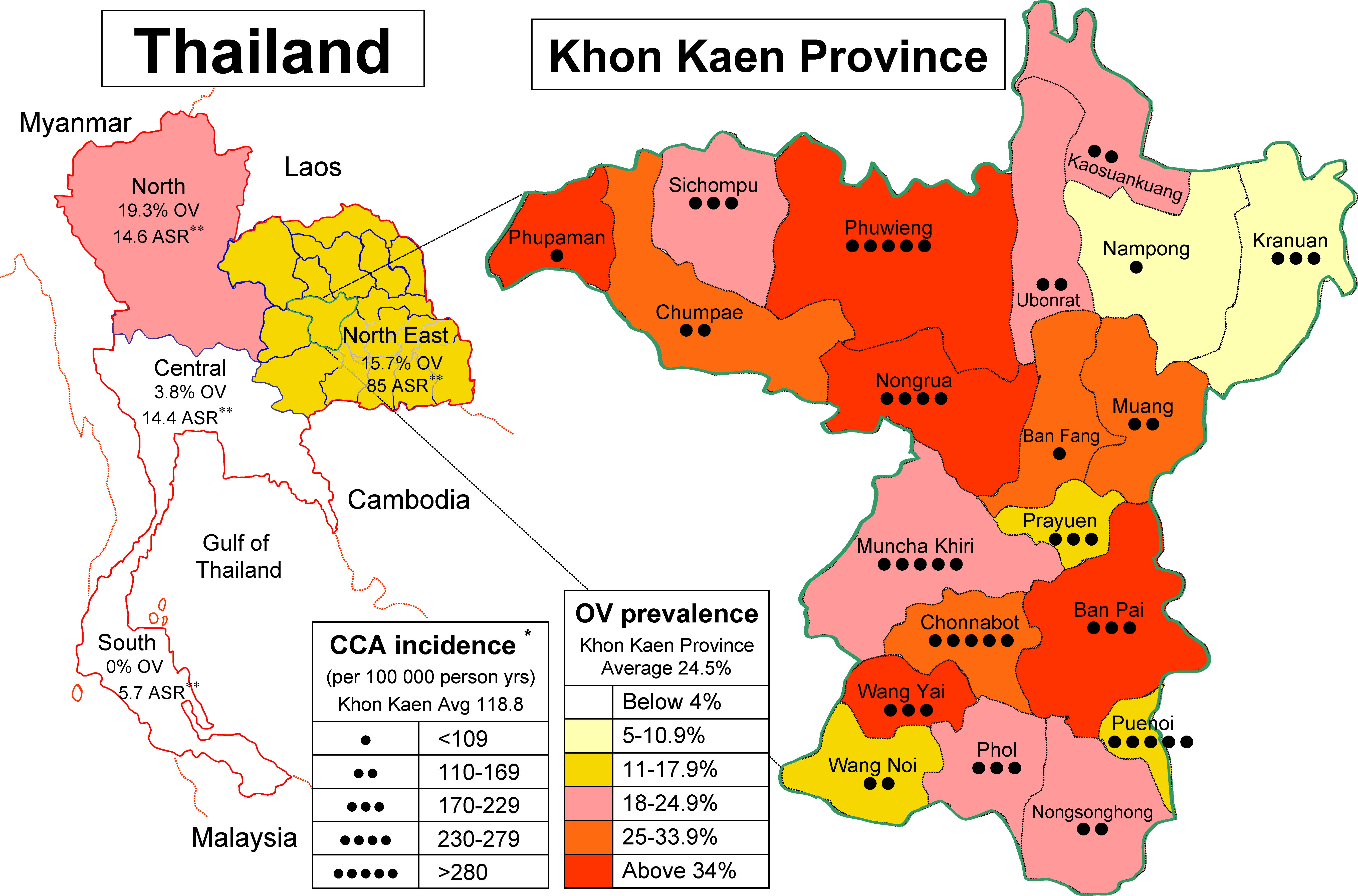 Incidence of cholangiocarcinoma (CCA) and Opisthorchis viverrini in Thailand from 1990–2001